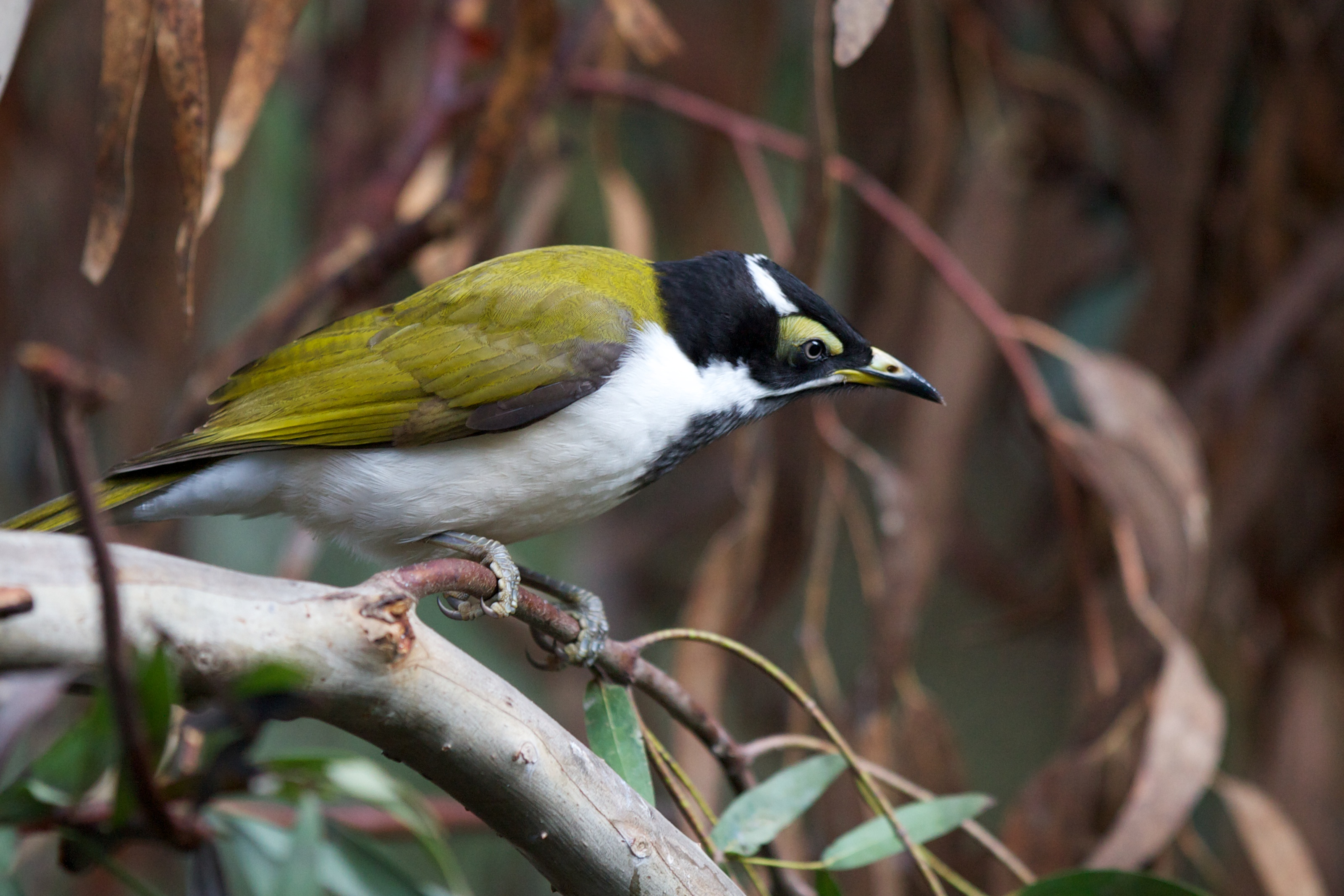 A juvenile Blue-faced Honeyeater in Healesville Sanctuary, Victoria, Australia.